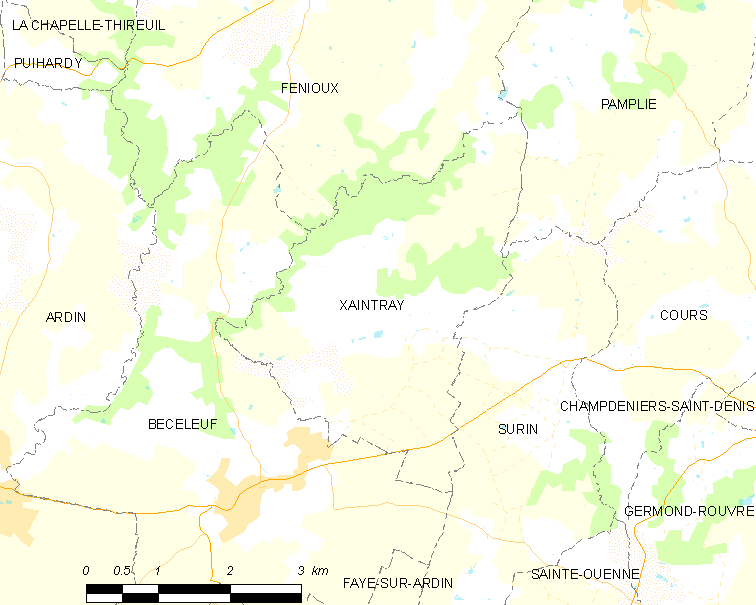 Map of French municipality Xaintray